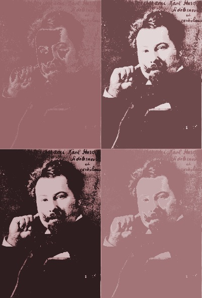 Émile Jaques-Dalcroze